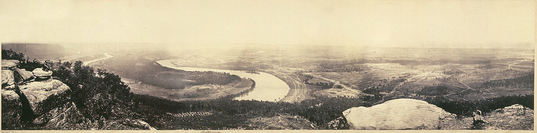 View from the top of Lookout Mountain, Tenn., February, 1864.. Photograph taken by George N Barnard, albumen print